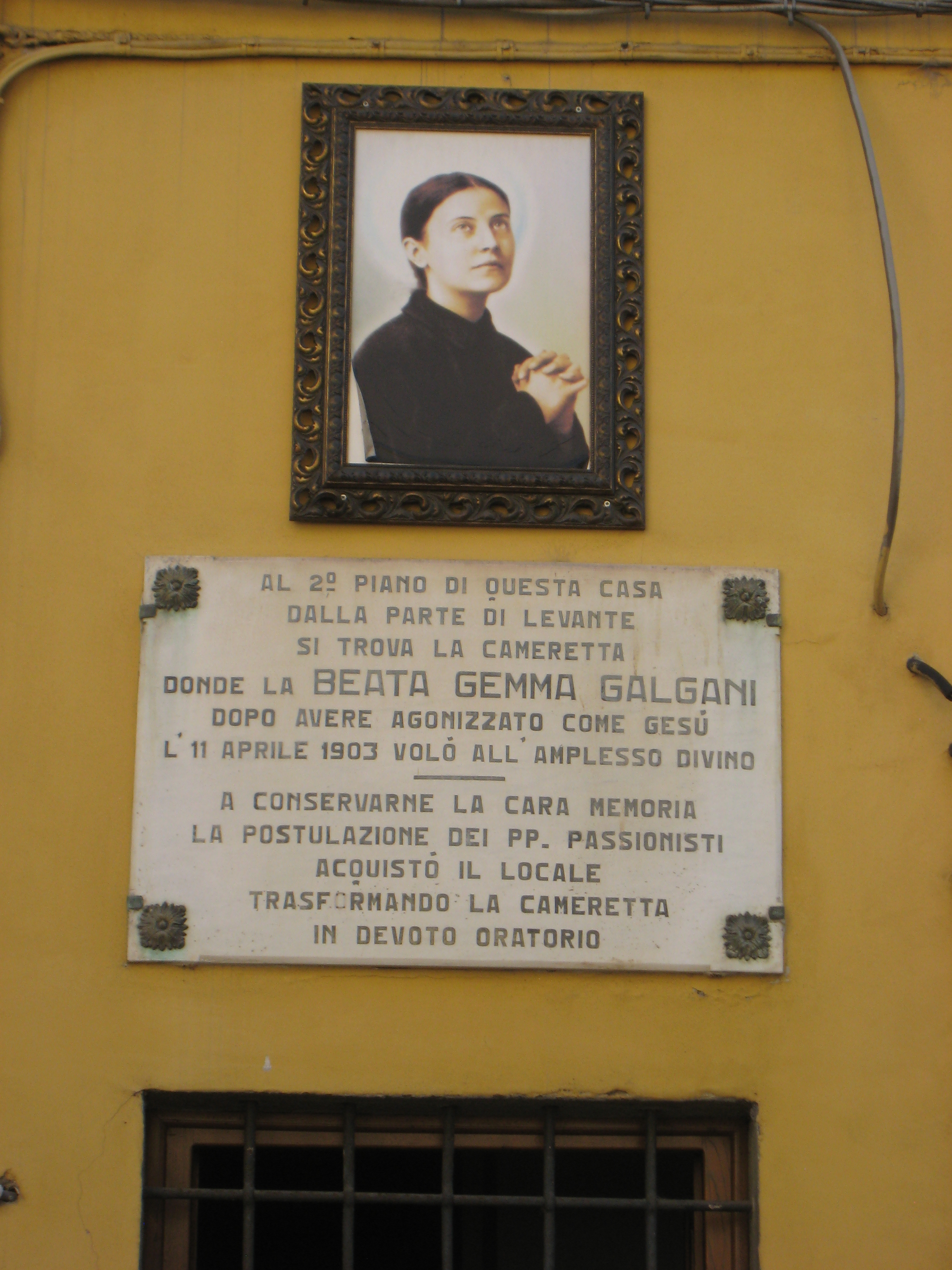 Lucca. Portrait and inscription on the house where Saint Gemma Galgani died.